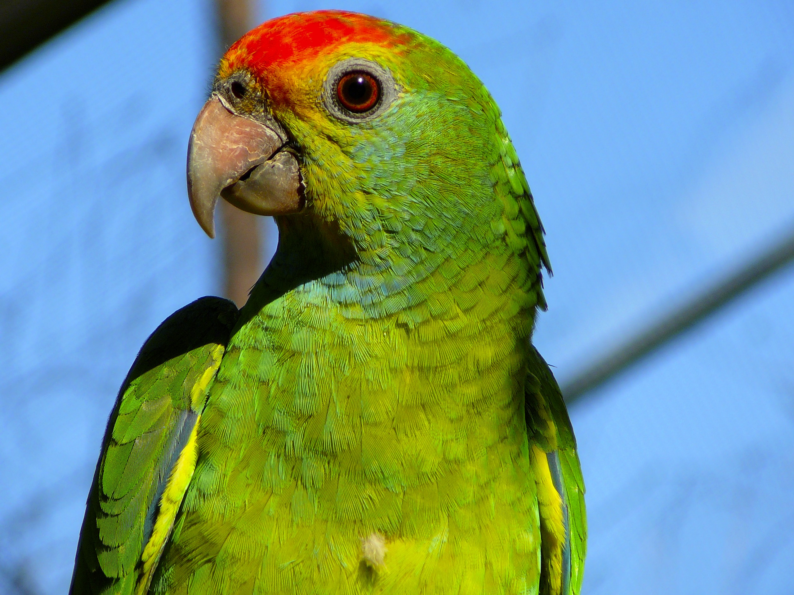 The red-browed Amazon parrot Amazona rhodocorytha at Rare Species Conservatory Foundation, USA.